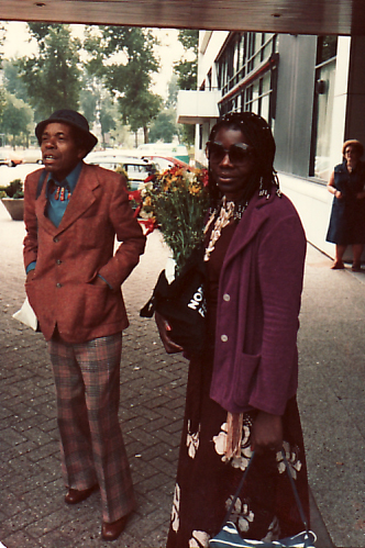 Babs Gonzales and Salome Bey